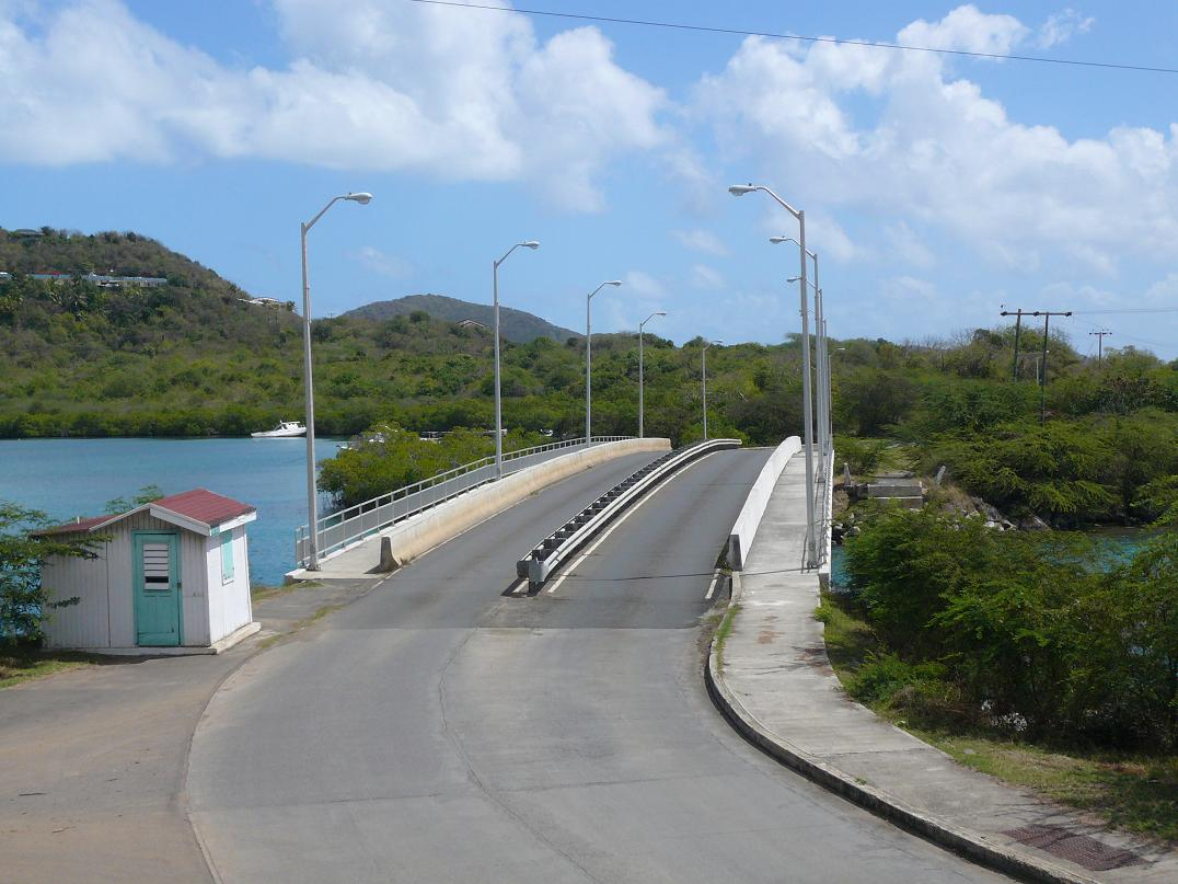 Photograph of Queen Elizabeth II Bridge